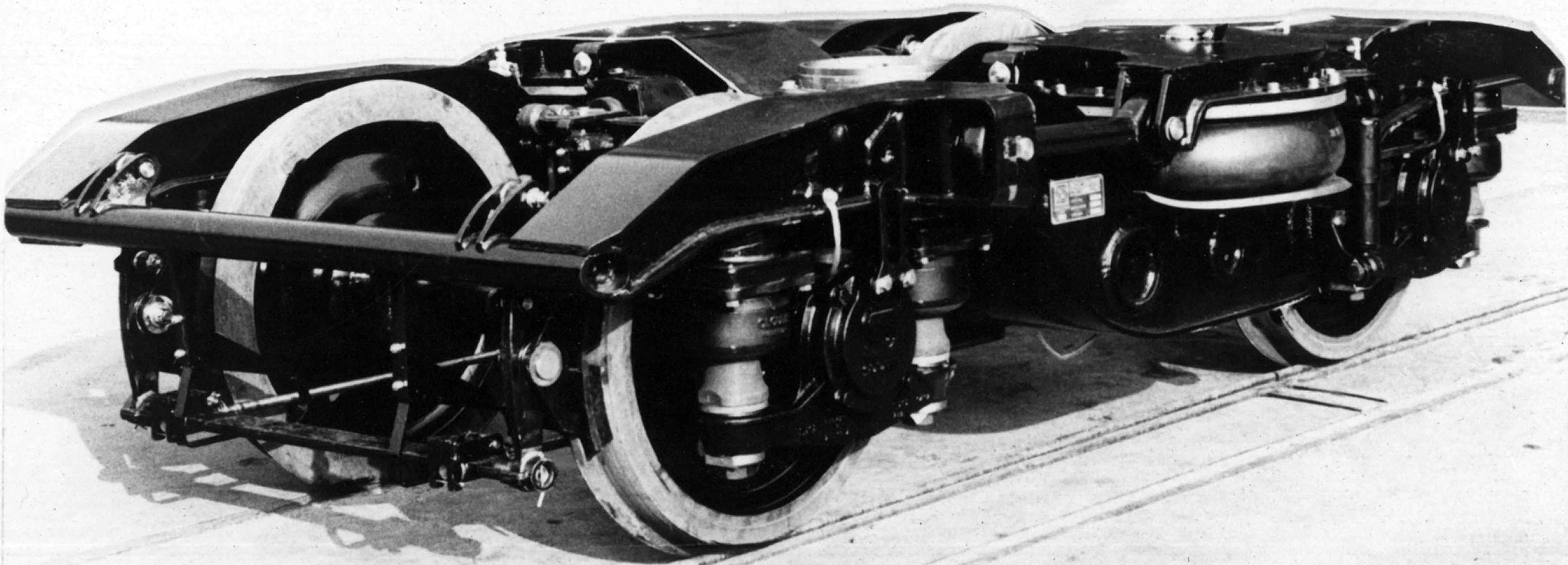 TRA Bogie TR51, made by Socimi (Italy)